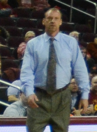 University of Utah basketball coach Larry Krystkowiak during a game at the University of Southern California on February 13, 2014.